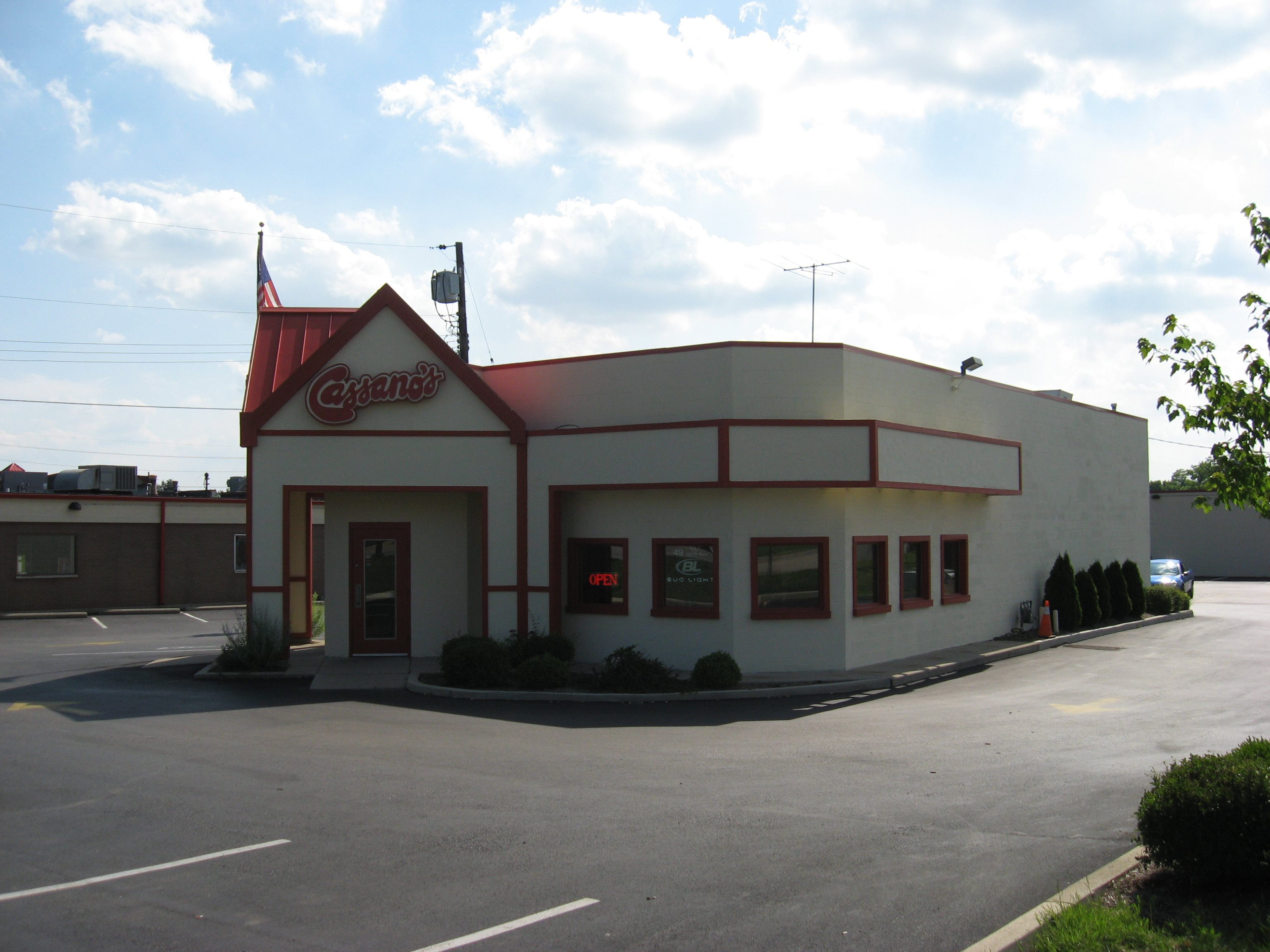 Cassano's Pizza restaurant (Springboro, Ohio, USA)